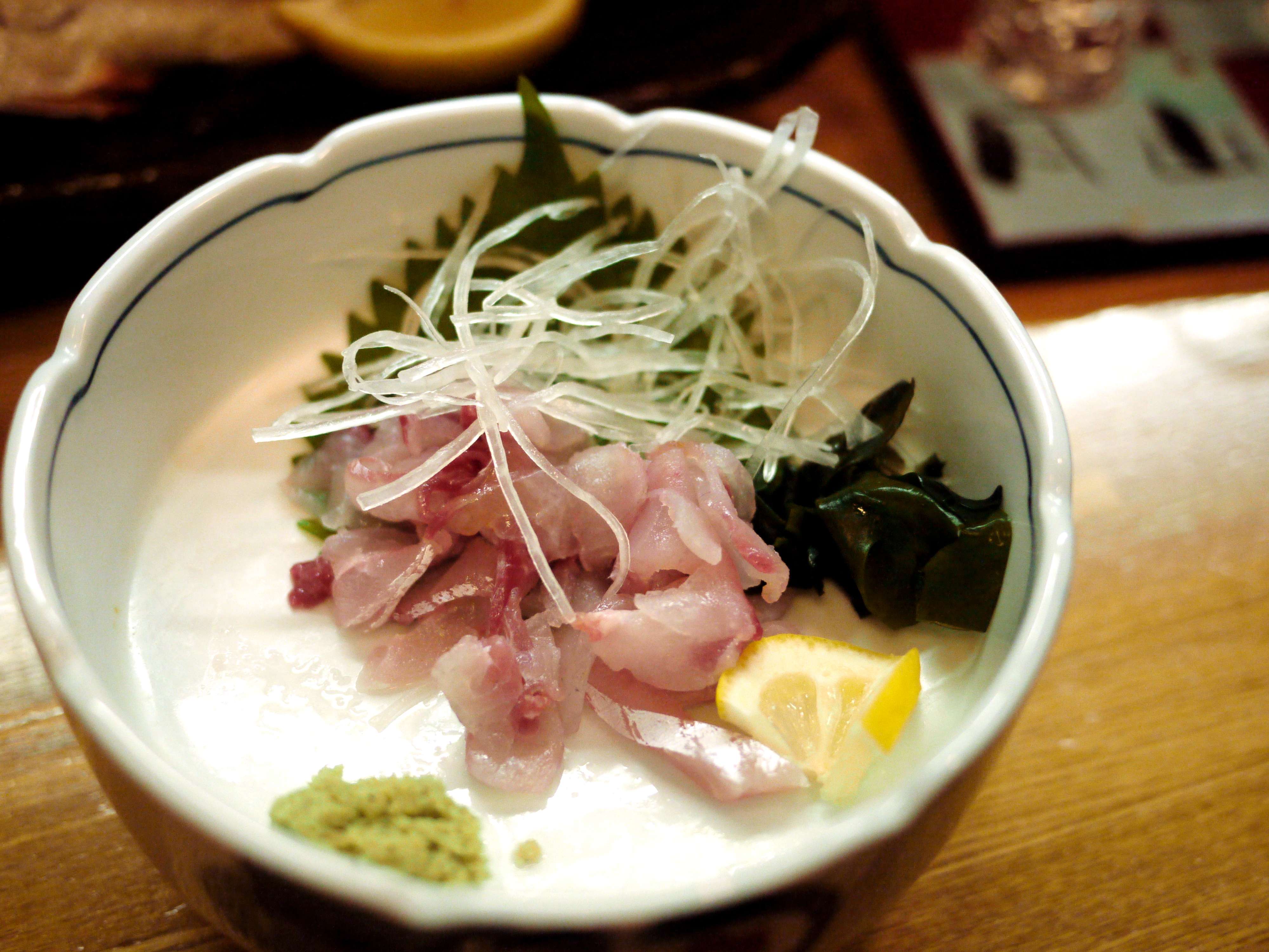 This type of carp lives in a mixtures of salt & fresh water - carp which lives in just fresh water is apparently not very tasty.